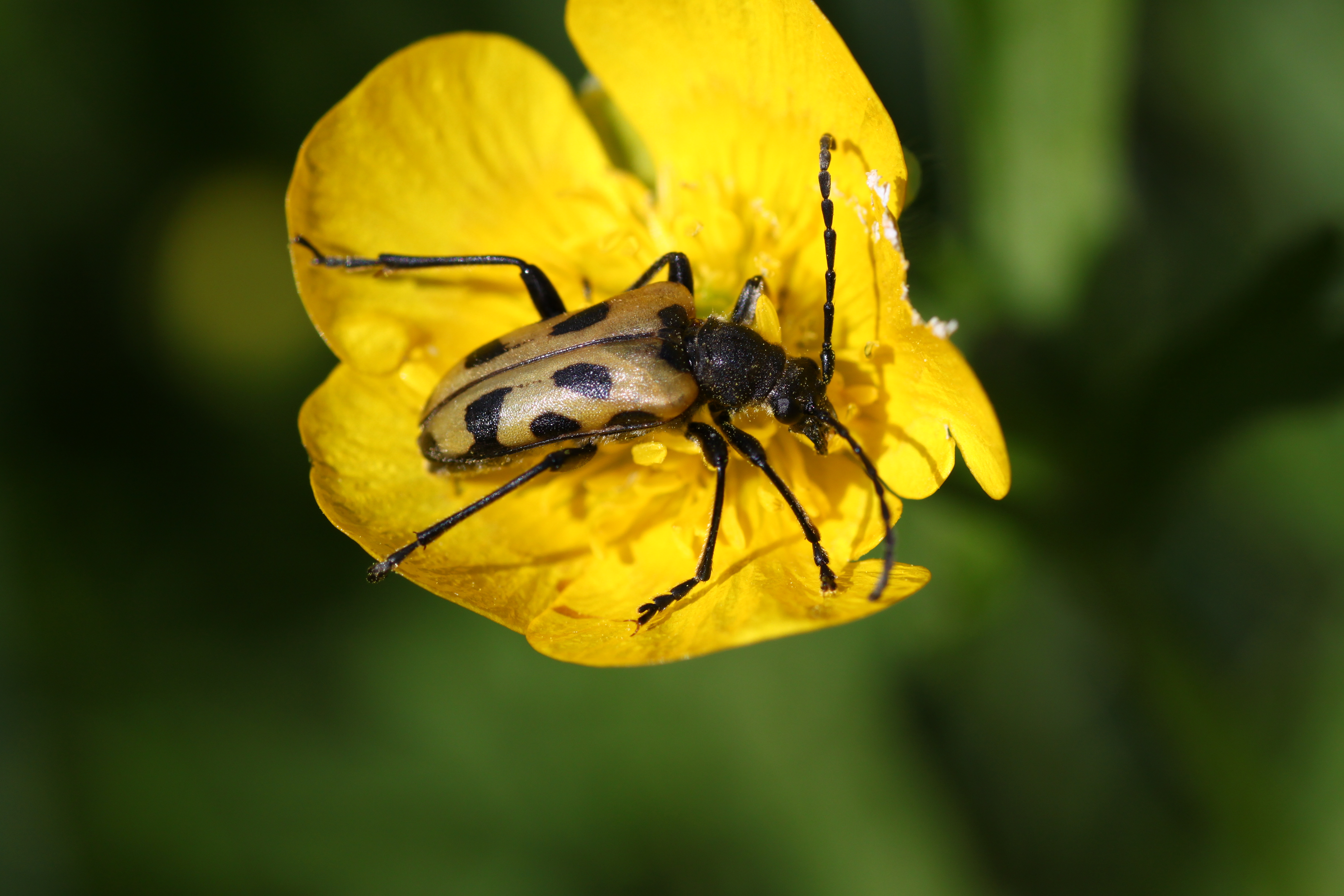 Brachyta interrogationis. Photo taken in Hautes-Alpes near Briançon - France